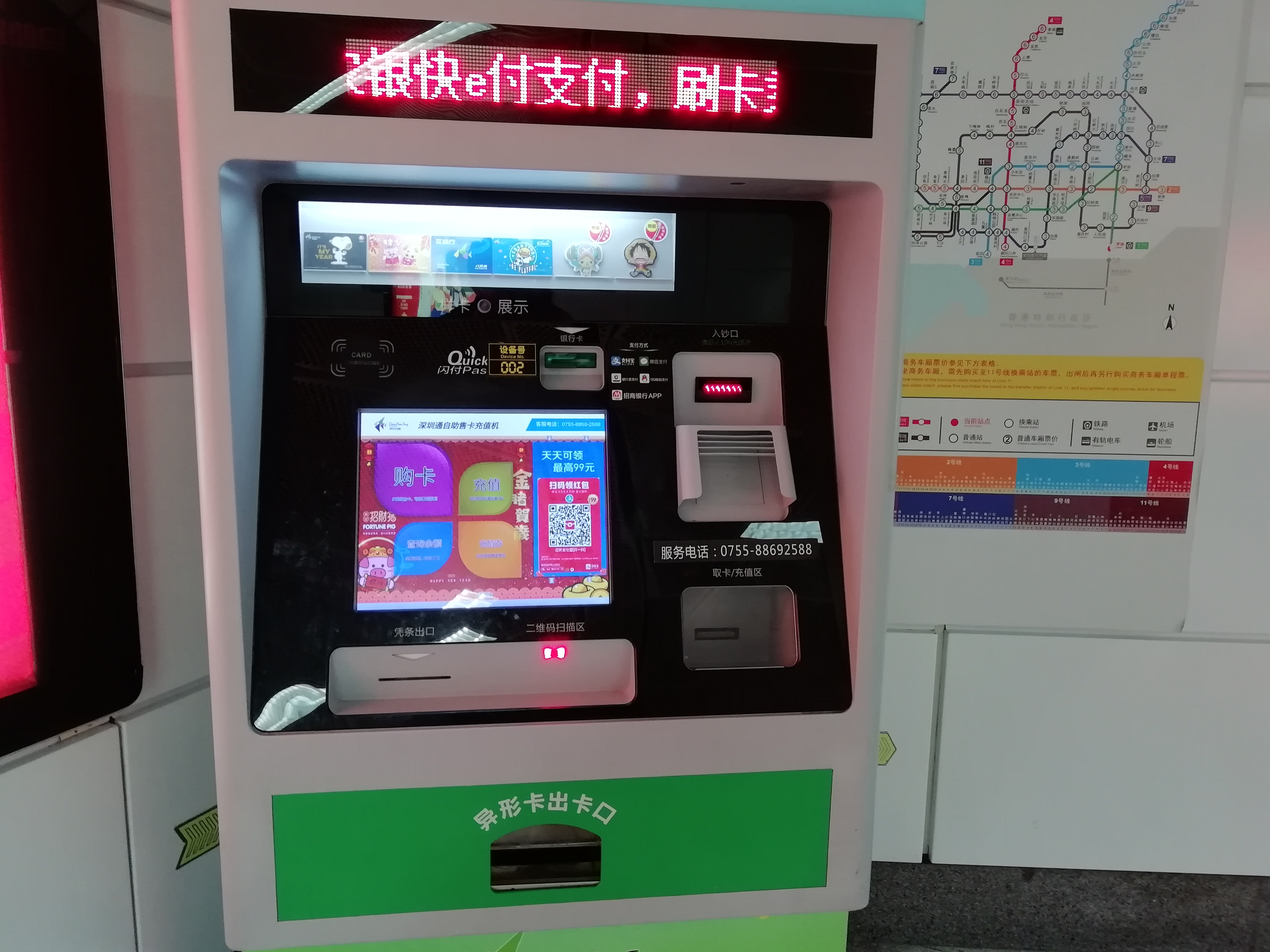 A TVM of Shenzhen Tong, located in Luohu Station. It accepts cash, bank cards, Alipay and Wechat Pay. 中文（中国大陆）: 设在罗湖站的深圳通自助购卡、充值机，支持现金、银行卡、支付宝和微信支付。